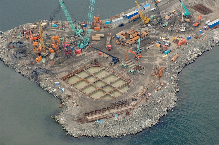 Construction of Russki Island Bridge